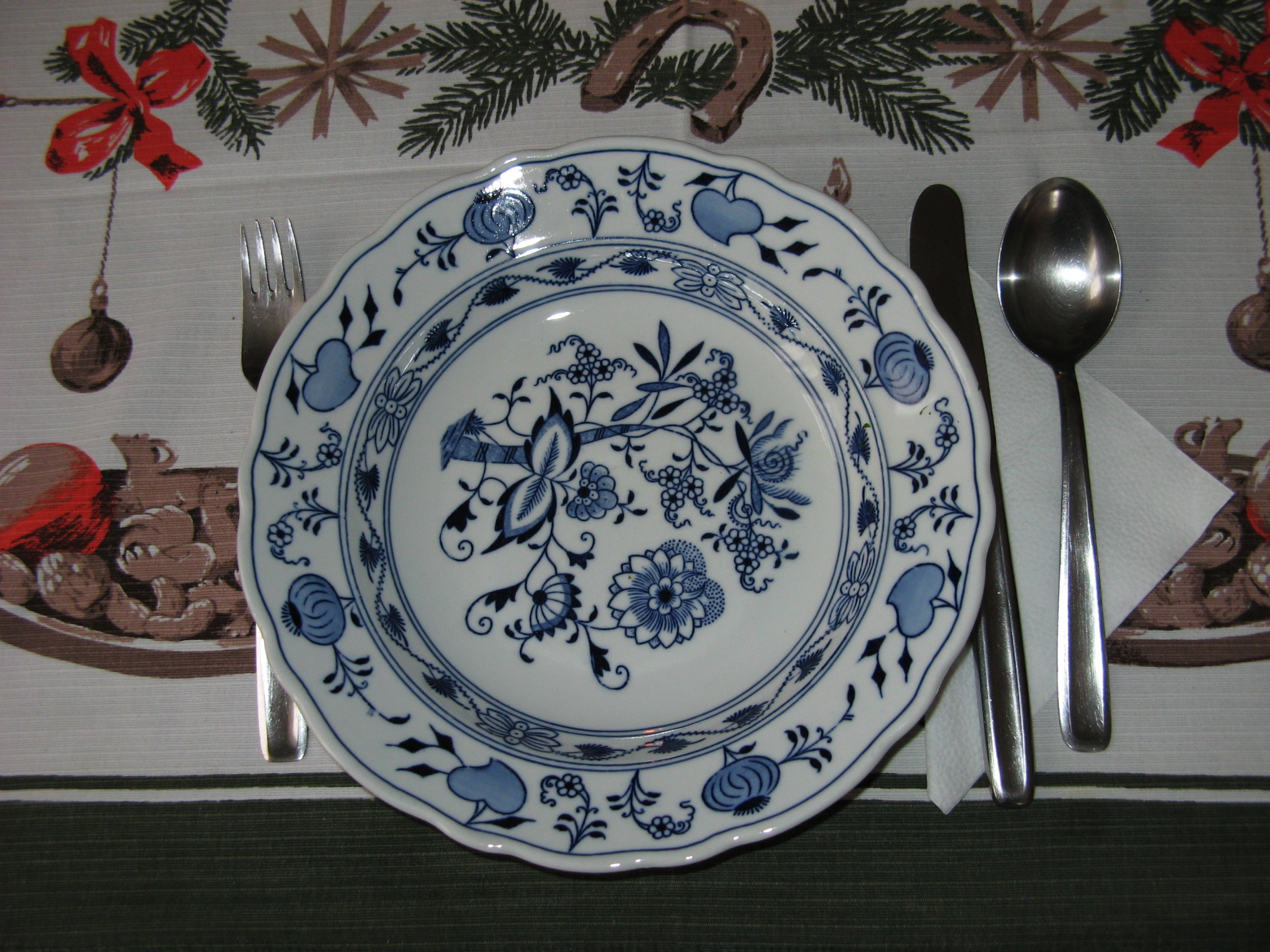 Porcelain plate (Blue Onion), manufactured in Meissen, c. 1941